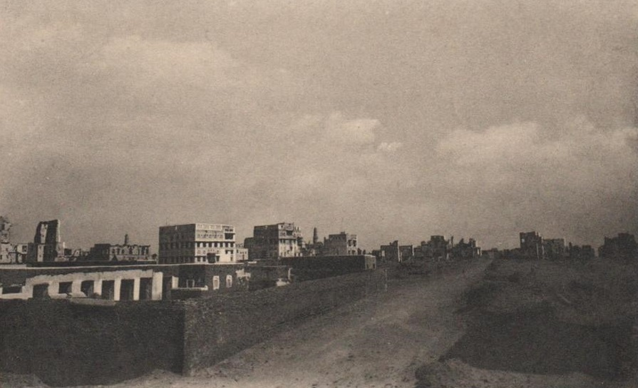 General view of Mocha in the early 20th. century. In 1912, Mocha, by then a minor, decaying Yemeni port, was bombarded by the Italian navy during the Italo-Turkish war and suffered minor damages. Cropped from a postcard published c. 1910-1915.